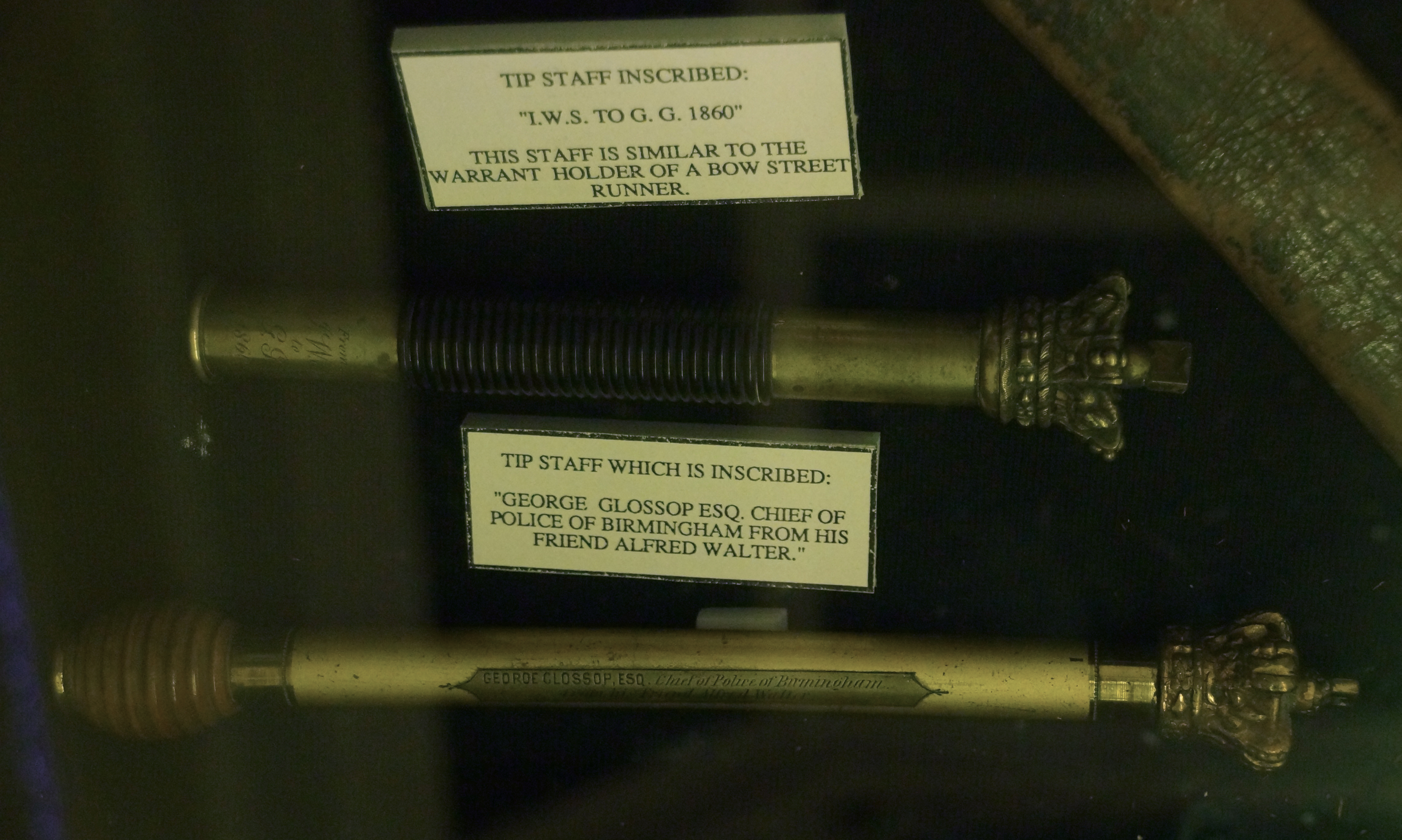 Tipstaffs displayed in West Midlands Police Museum, Sparkhill, Birmingham, England.